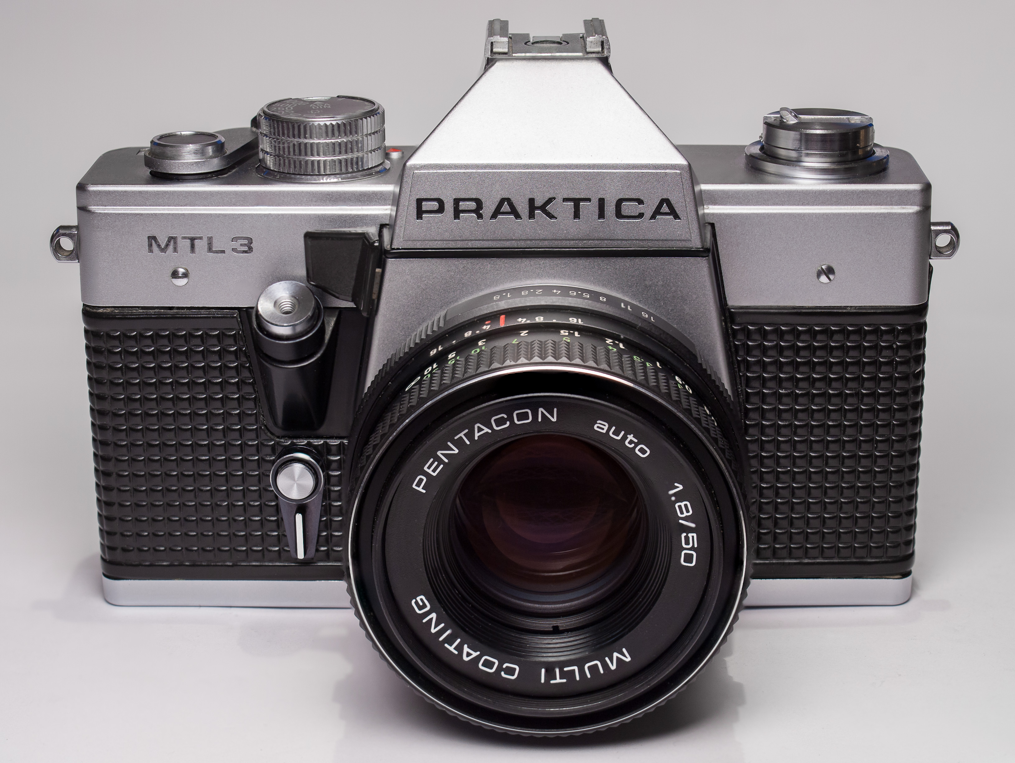 Prakica MTL3 SLR camera